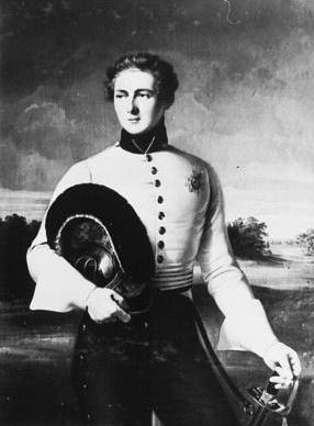 In Uniform mit Säbel und Helm als österreichischer Dragoner-Offizier, Sohn des Friedrich Erbprinzen von Anhalt-Dessau